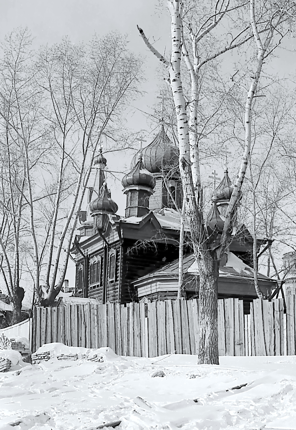 Old Believers church in Tomsk